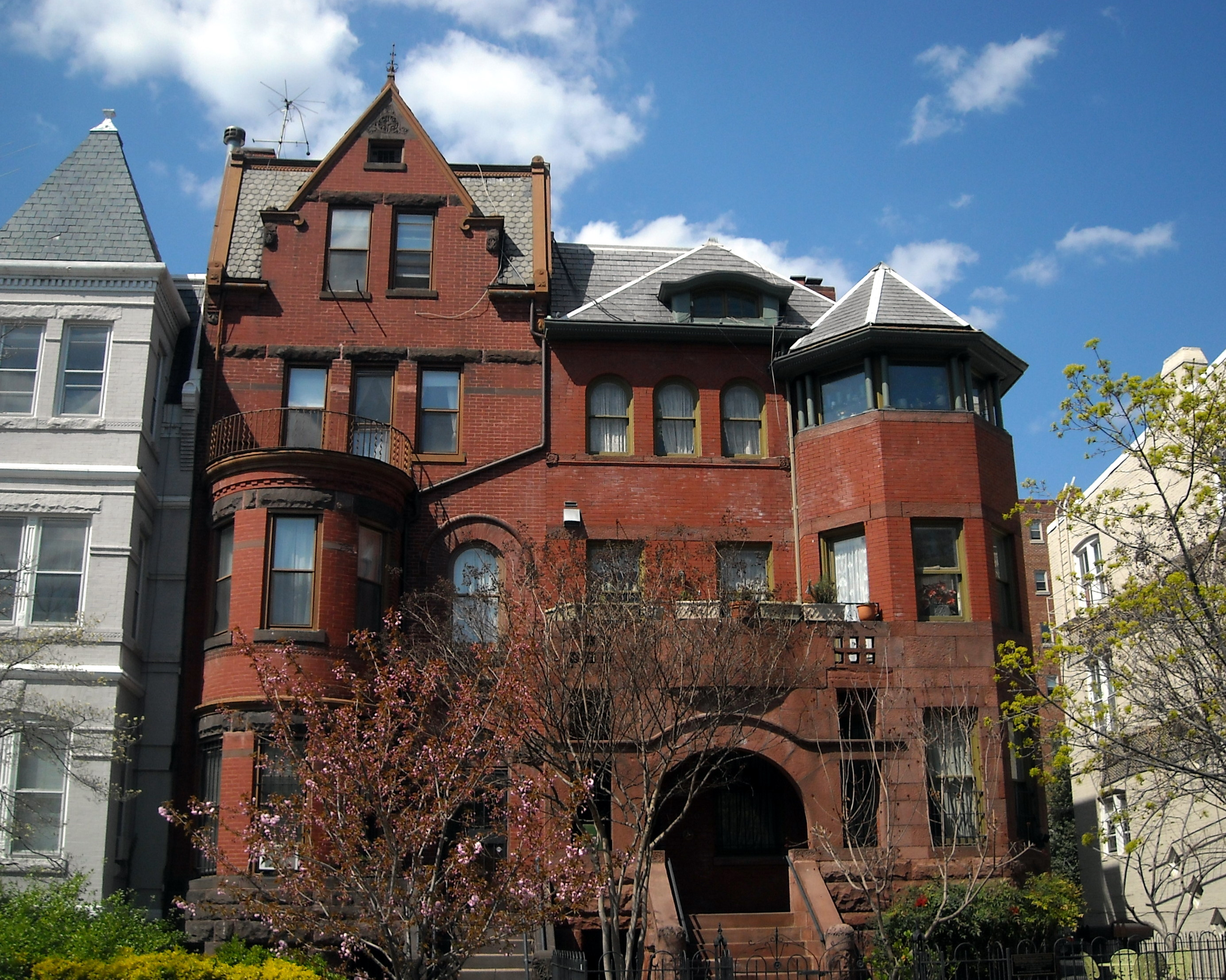 Homes located at 1628 (left) and 1630 (right) 19th Street NW in the Dupont Circle neighborhood of Washington, D.C. The buildings are contributing properties to the Dupont Circle Historic District, listed on the National Register of Historic Places in 1978. Previous occupants of 1628 19th Street NW, built in 1891 and designed by architect George S. Cooper, include Medical Director of the Navy Dr. Frank Anderson, Attorney General of Alabama William C. Fitts, attorney and Reporter of Decisions of the Supreme Court Charles Henry Butler, Solicitor of the Treasury Felix A. Reeve, Medal of Honor recipient Admiral William A. Moffett, Fannie L. Ricketts (widow of General James B. Ricketts), and Brigadier General Nelson B. Sweitzer. Previous occupants of 1630 19th Street NW, built around 1892 and designed by architect Clarence L. Harding, include Oklahoma Representative Alice Mary Robertson, treasurer of Southern Railway Harrie C. Ansley, and Adolph C. Miller's private secretary D.C. Elliott.